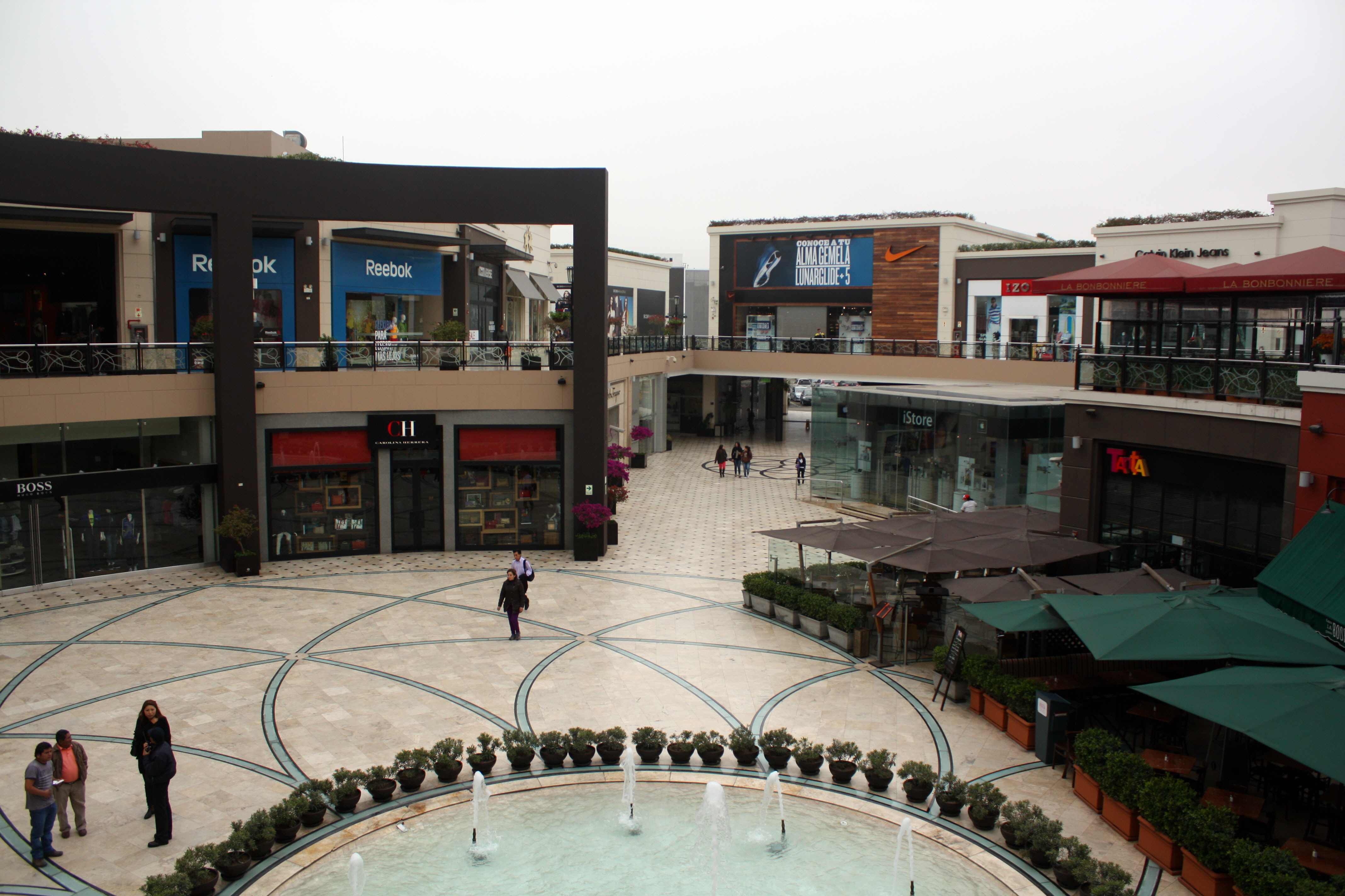 Shopping mall in Lima, Peru city.